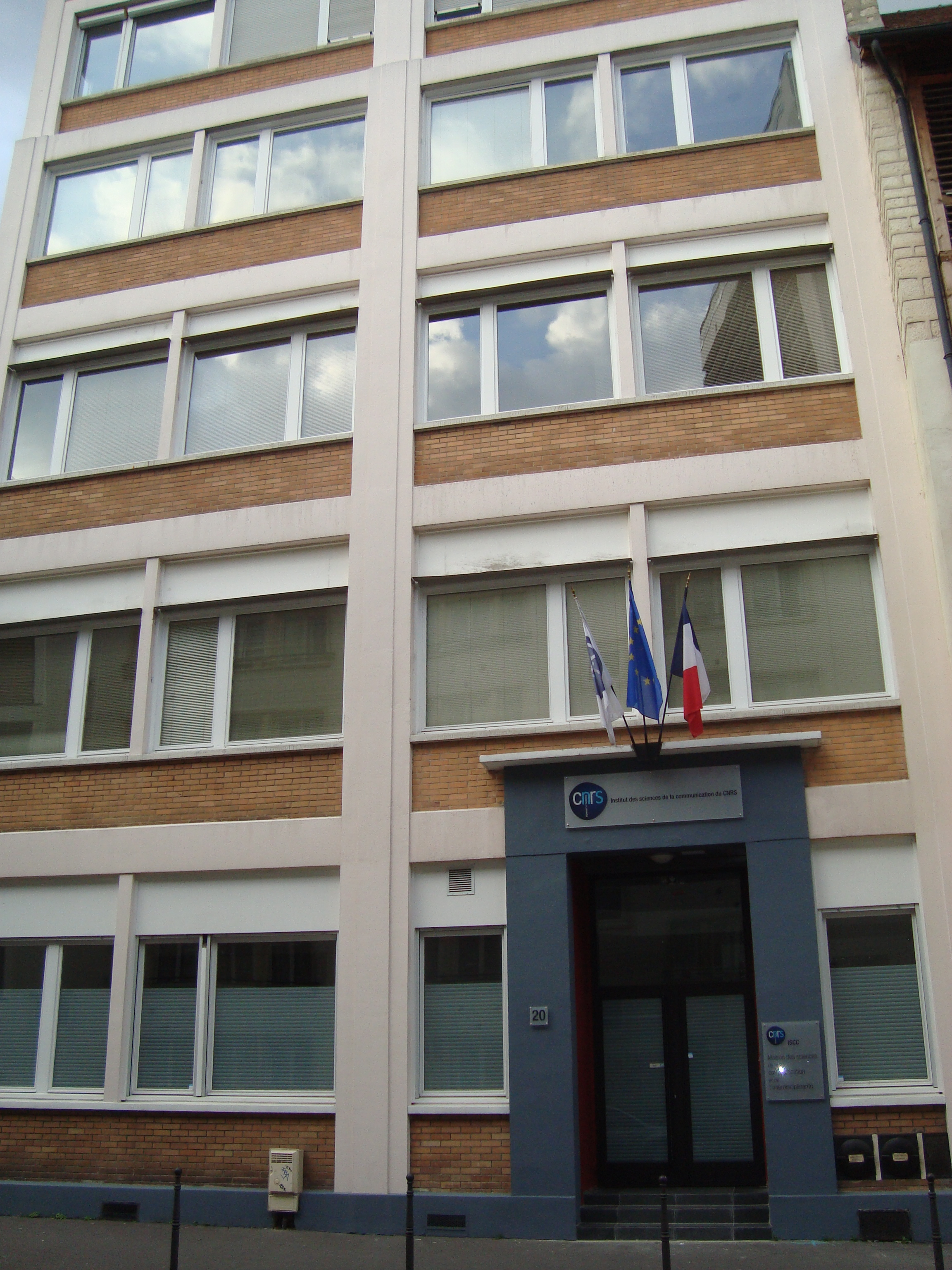 Institut des sciences de la communication du CNRS at 20, rue Berbier-du-Mets in Paris